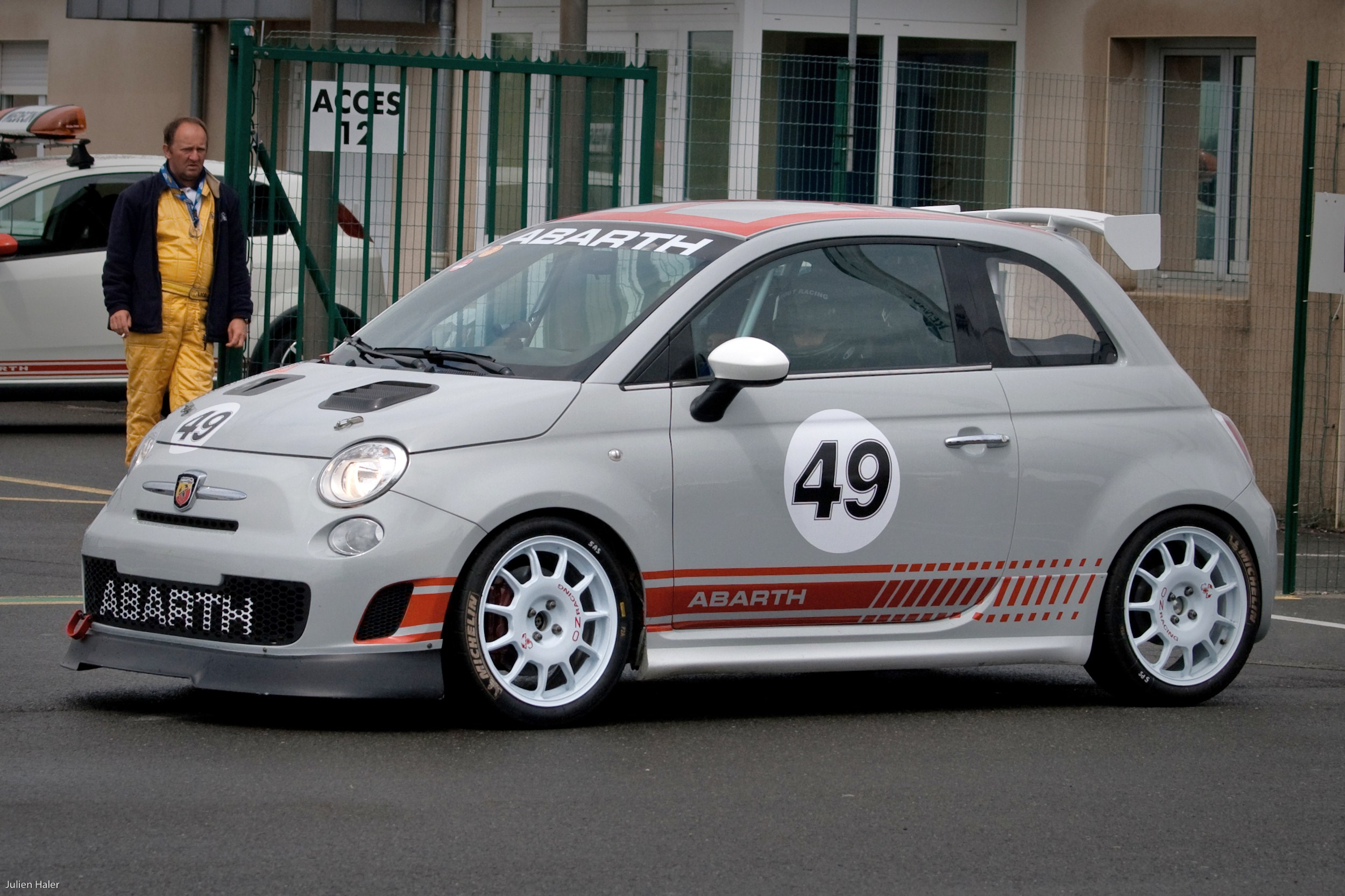 Abarth 500